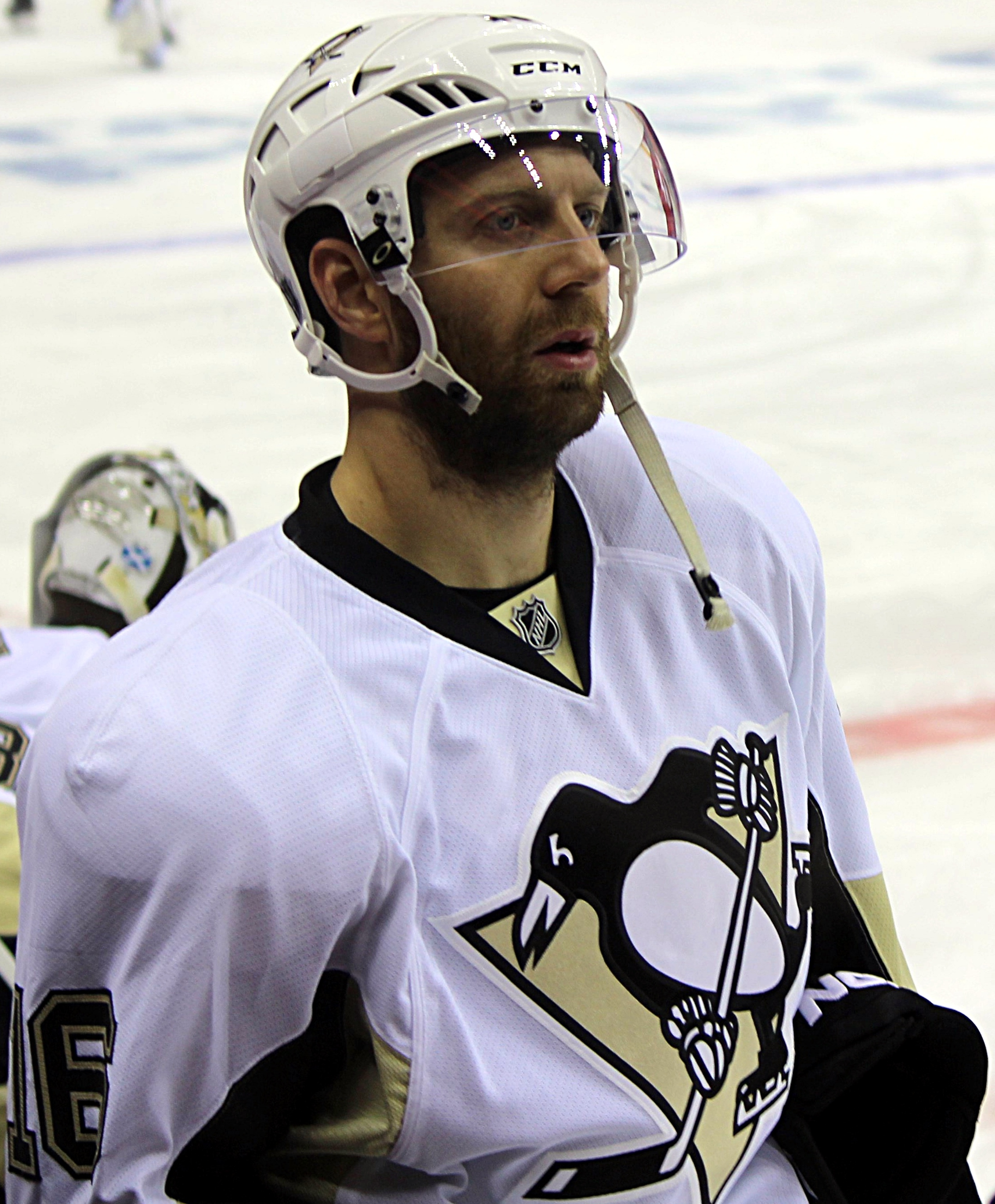 Pittsburgh Penguins forward Eric Fehr prior to a playoff game against his former team, the Washington Capitals, April 28, 2016, at Verizon Center in Washington, D.C.